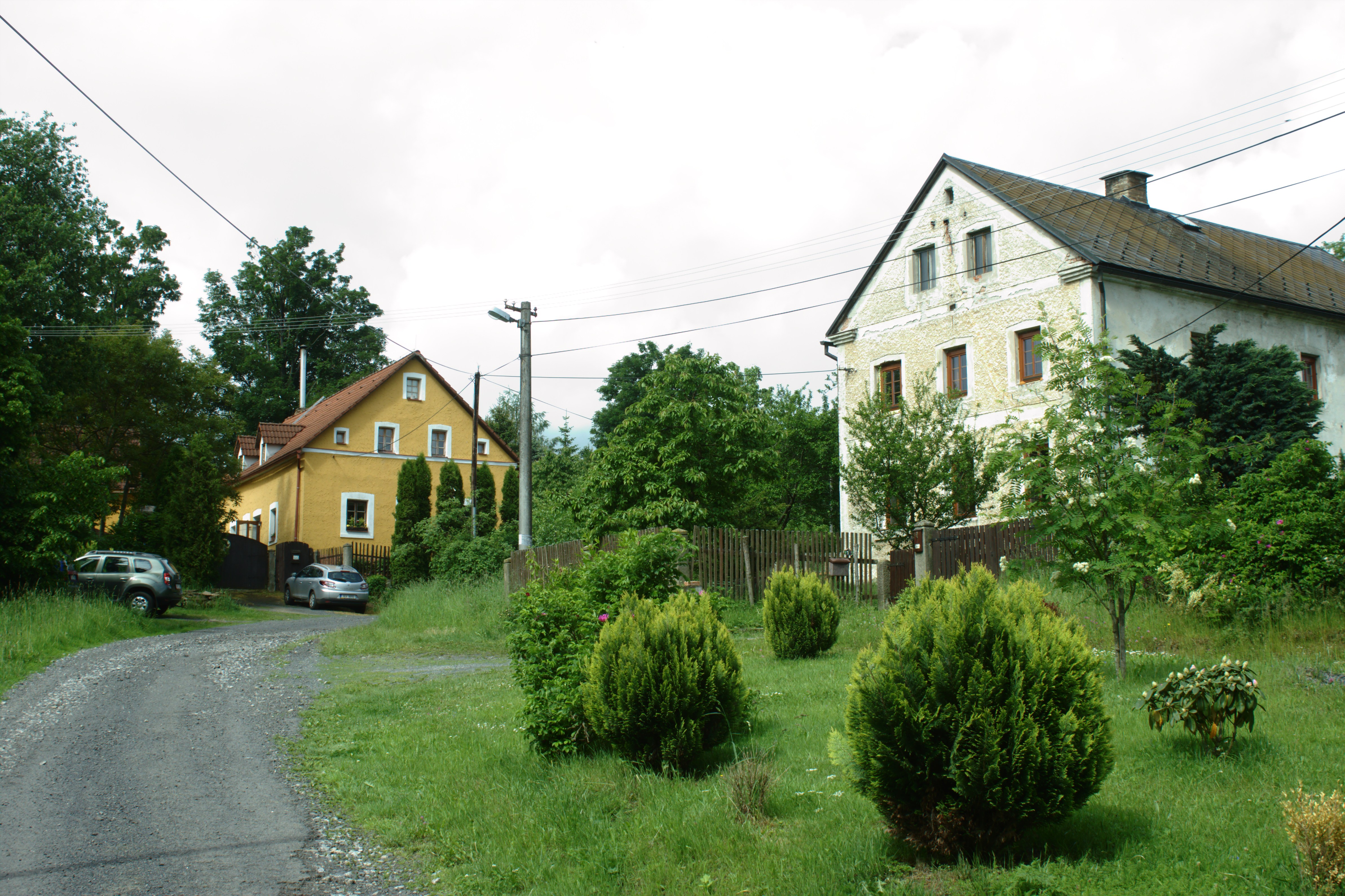 Buildings in the village of Babice, Plzeň Region, CZ